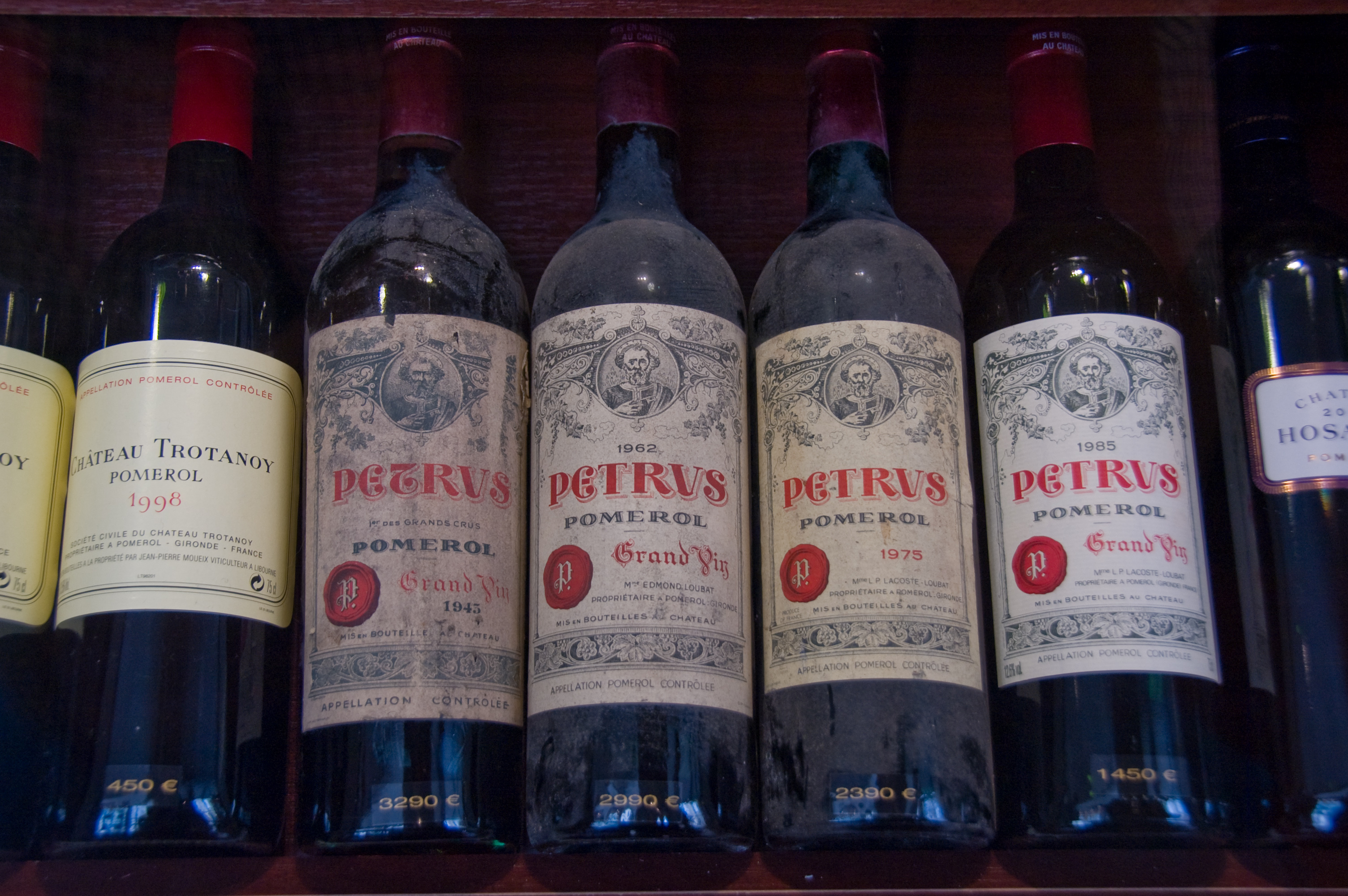 Several vintages of Chateau Petrus at a wine shop